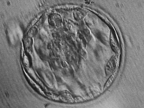 A human blastocyst, day 5 of conception.